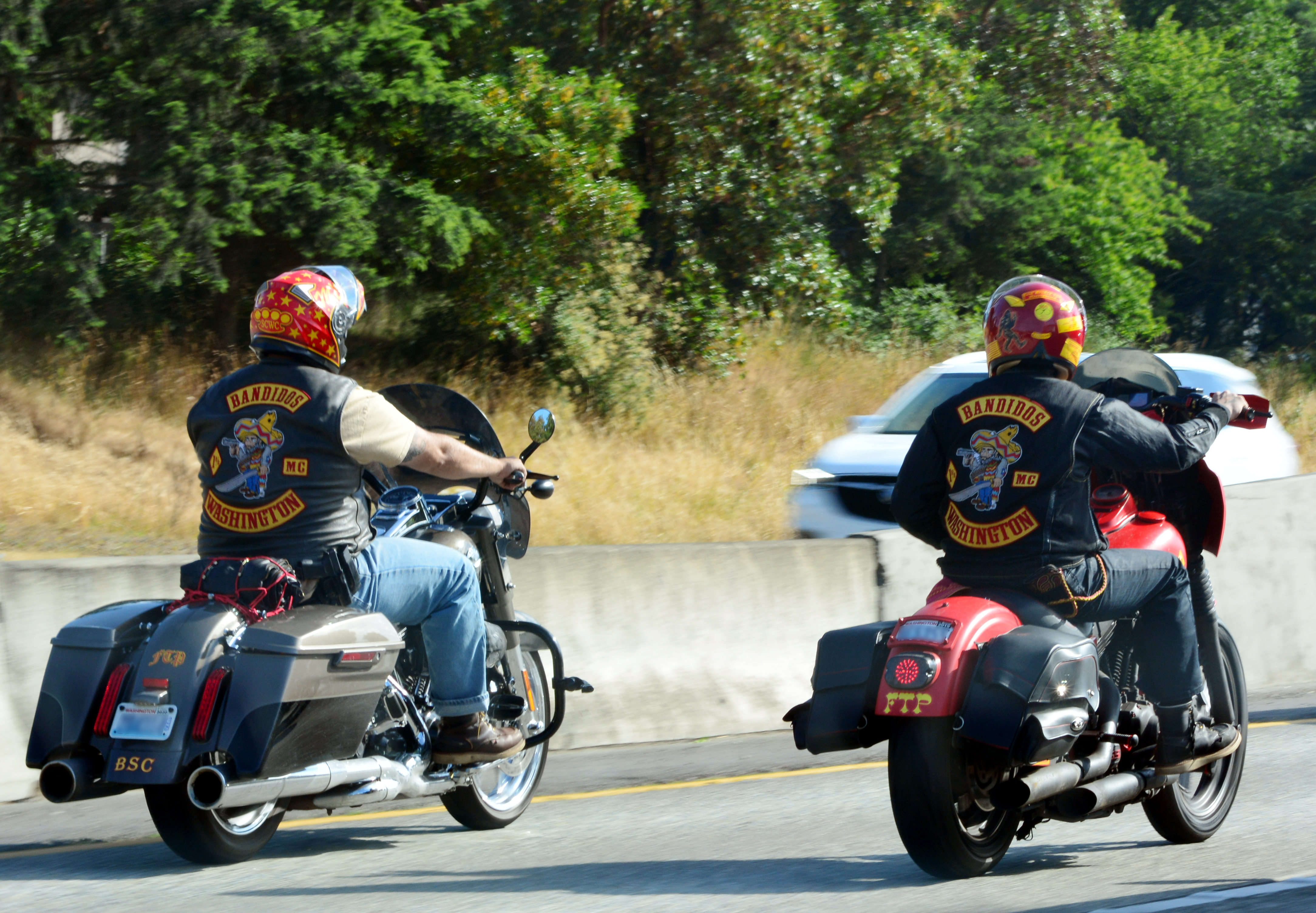 Two members of the Bandidos Motorcycle Club headed south in Interstate 5 in Pierce County, Washington. Gaussian blur over their license plates to preserve their privacy. Personality rights warningAlthough this work is freely licensed or in the public domain, the person(s) shown may have rights that legally restrict certain re-uses unless those depicted consent to such uses. In these cases, a model release or other evidence of consent could protect you from infringement claims.